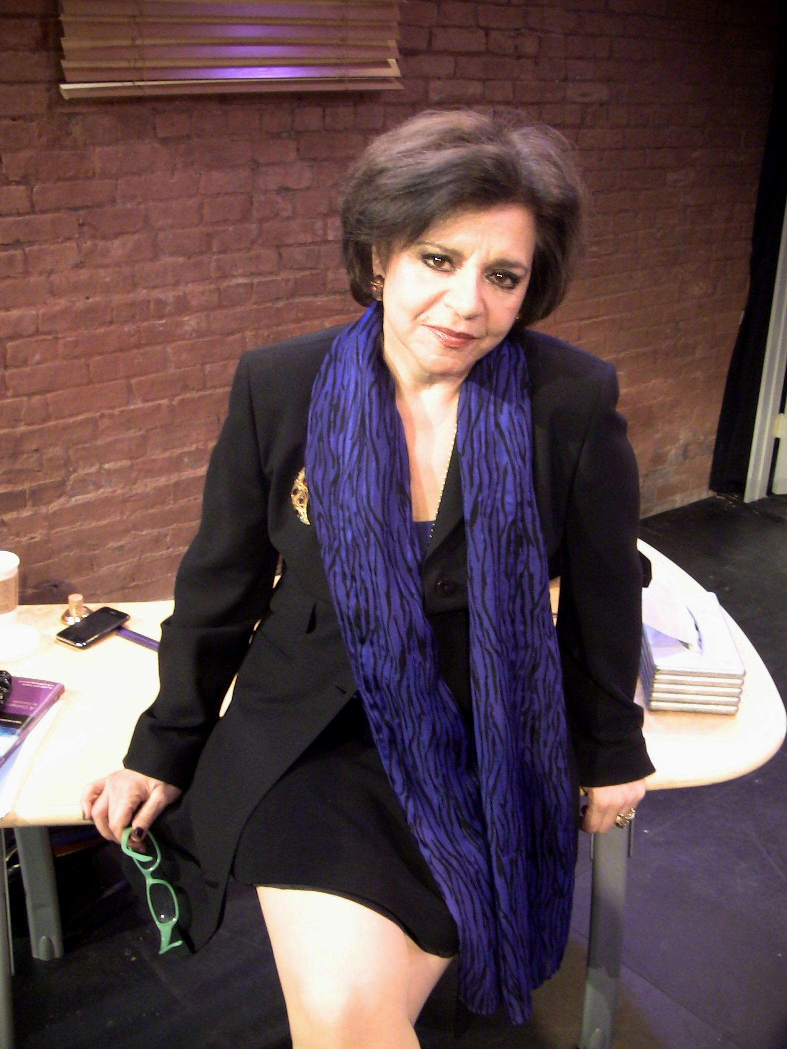 Kathryn Kates, Actress, 2013